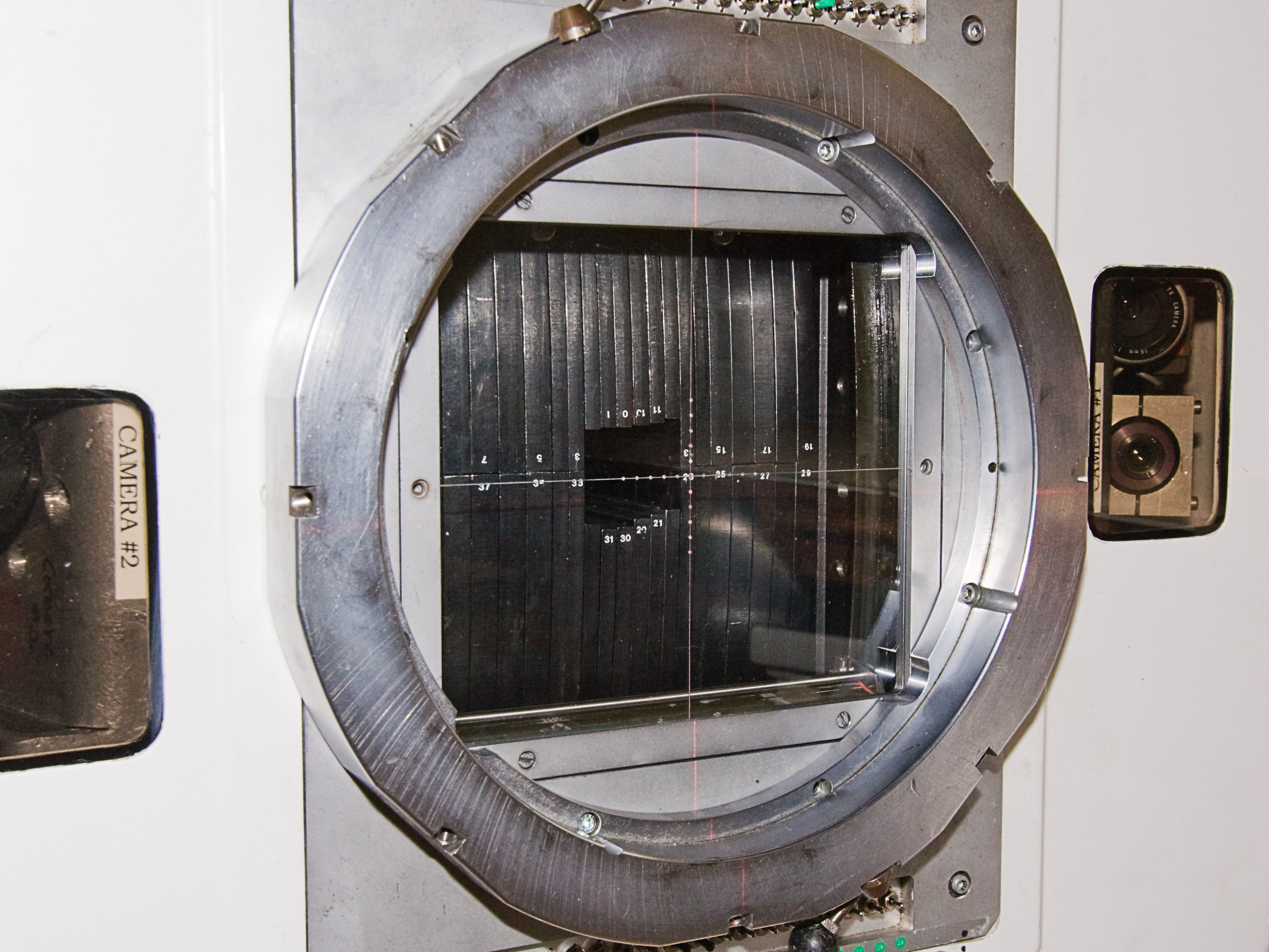 Collimator for neutrons in the University of Washington cyclotron. The lead blades are custom positioned for each patient's tumor geometry. They focus the neutron beam in order to irradiate only the tumor and not the surrounding tissue.